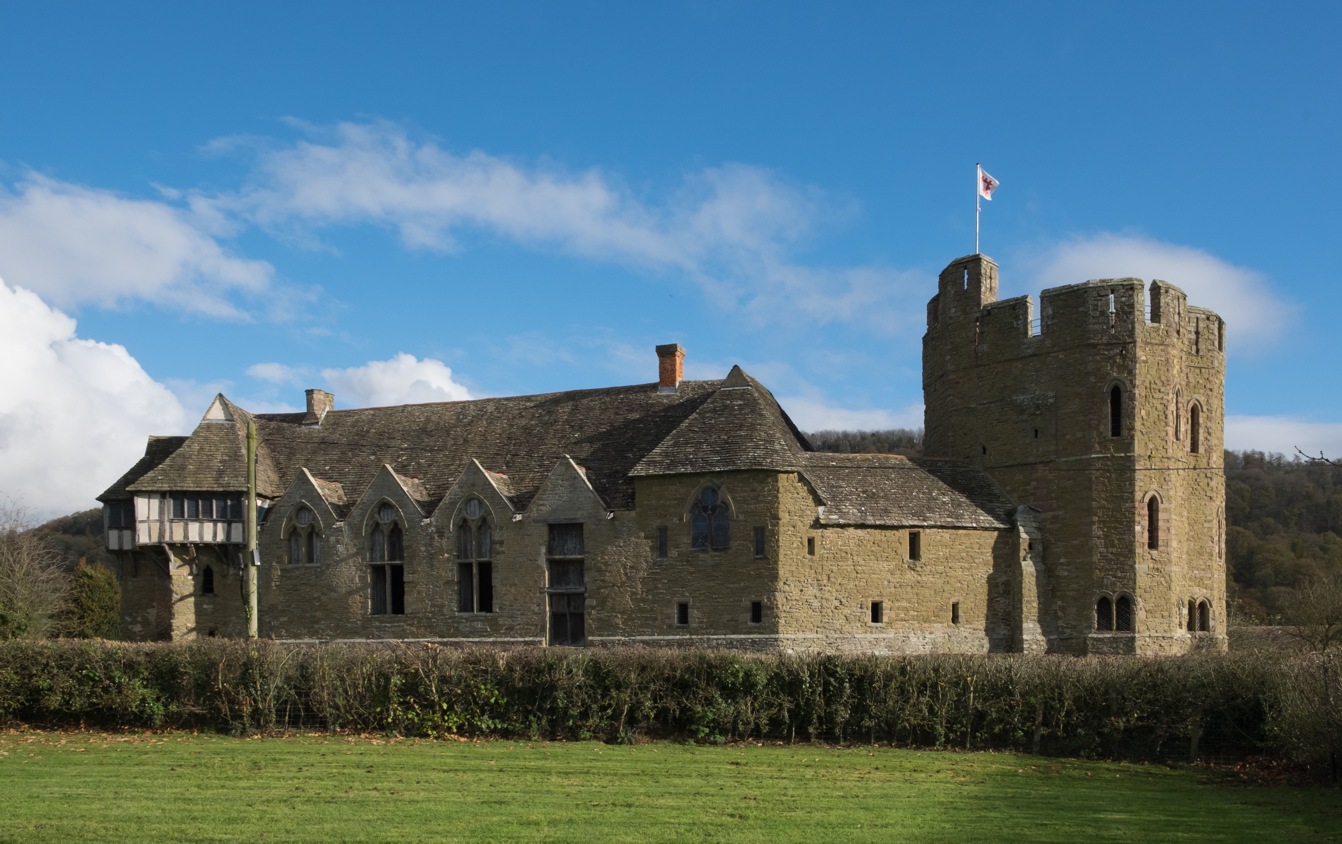 Stokesay Castle, Shropshire. This 14th-century building is a grade 1 listed building in England.